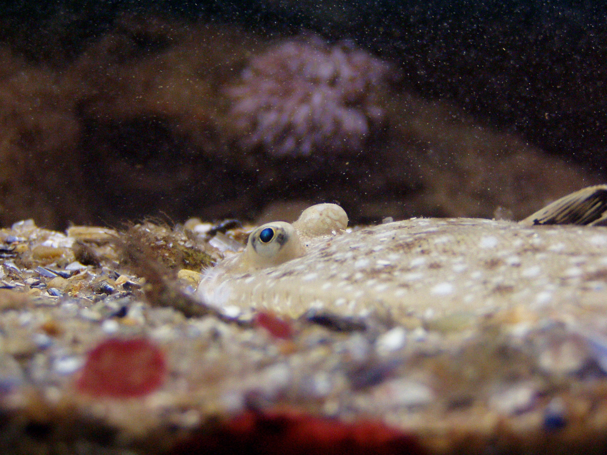 Sole